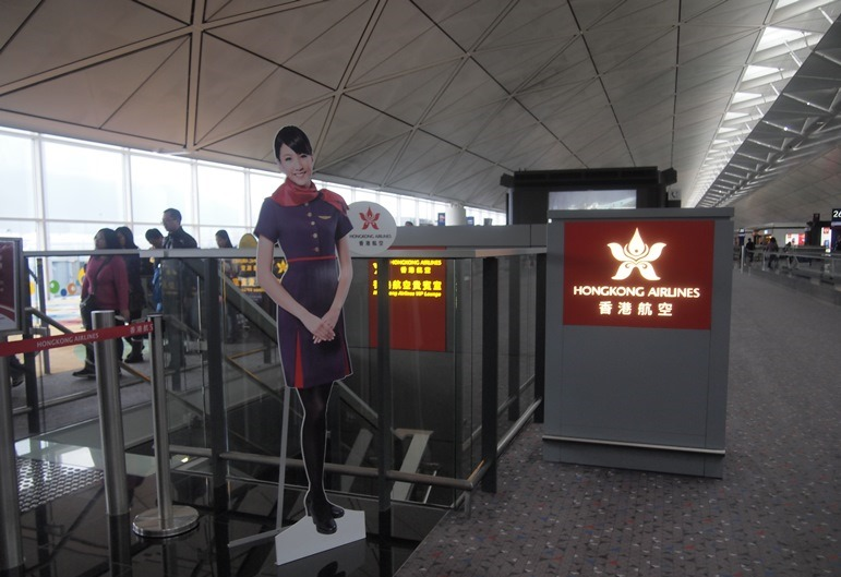 HongKong Airlines VIP Lounge Entrance (Level 6, Terminal 1) at the Hong Kong International Airport, Hong Kong 中文（香港）: 香港航空貴賓室入口位置